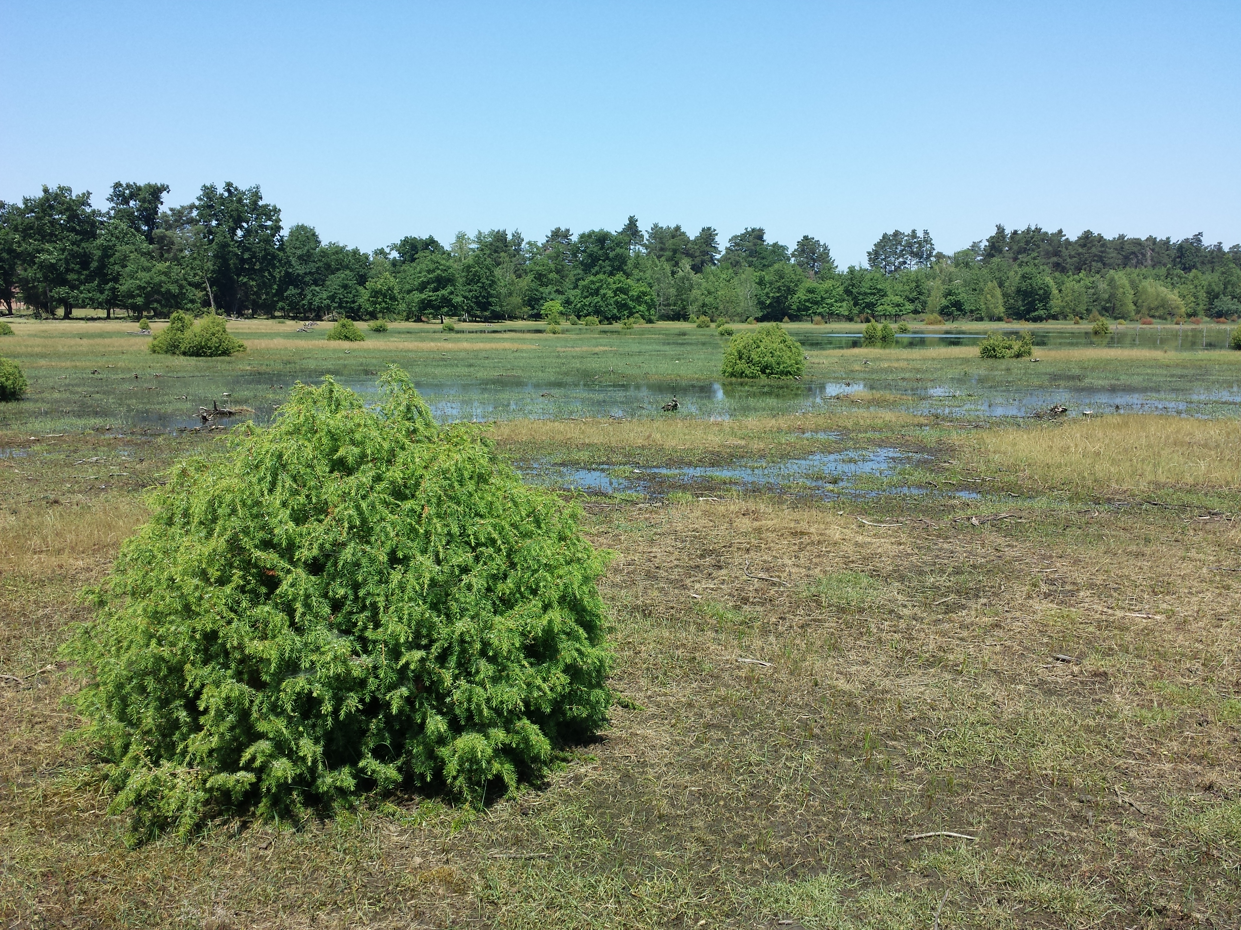 Habitus Taxonym: Juniperus communis ss Fischer et al. EfÖLS 2008 ISBN 978-3-85474-187-9; det. Gergely Király 2015-06-05 Location: dry grassland on acid sand near Darány, Somogy County, Hungary - ca. 130 m a.s.l. Habitat: dry grassland on acid sand